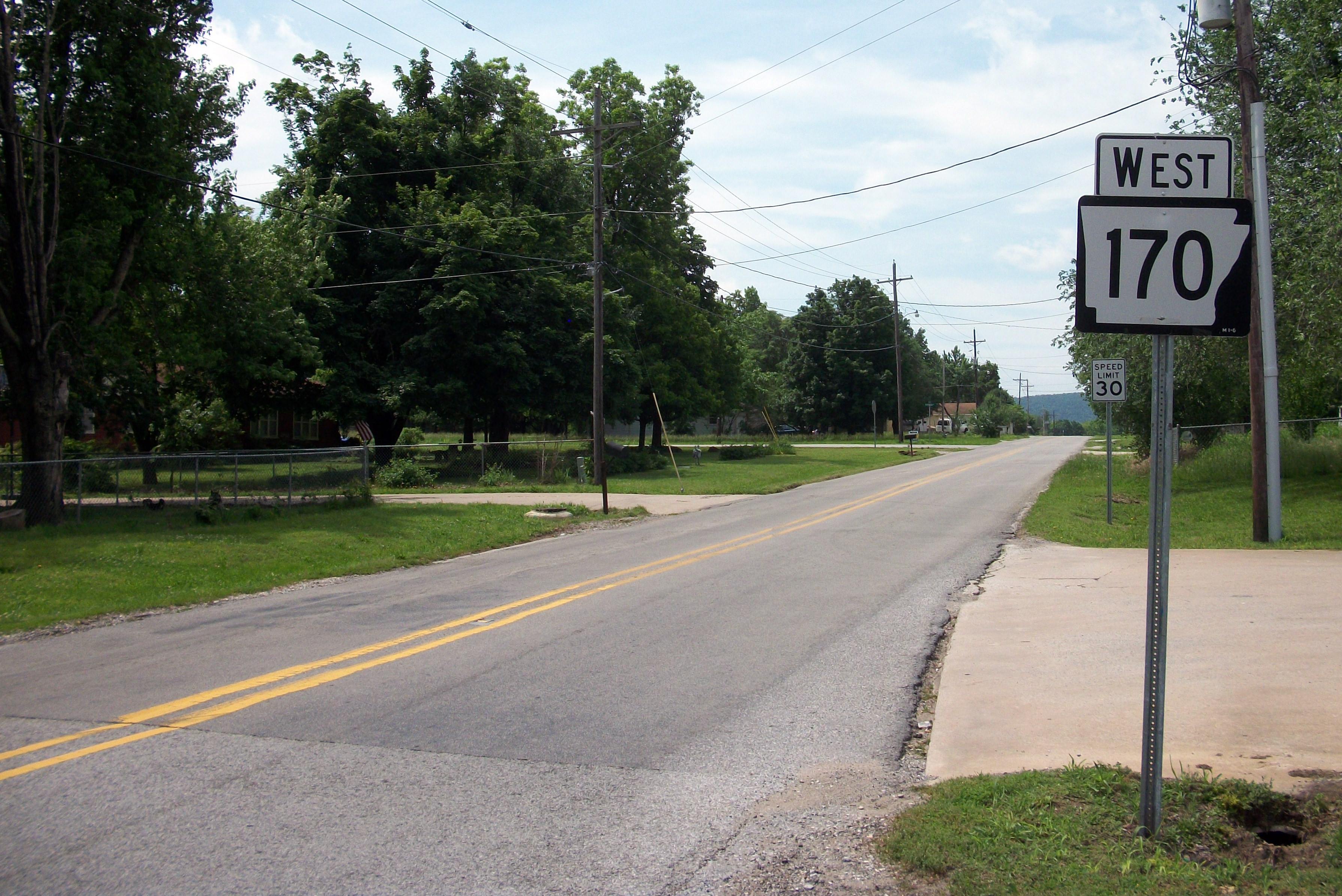 Highway 170 northern terminus at US 62 in Farmington, Arkansas.